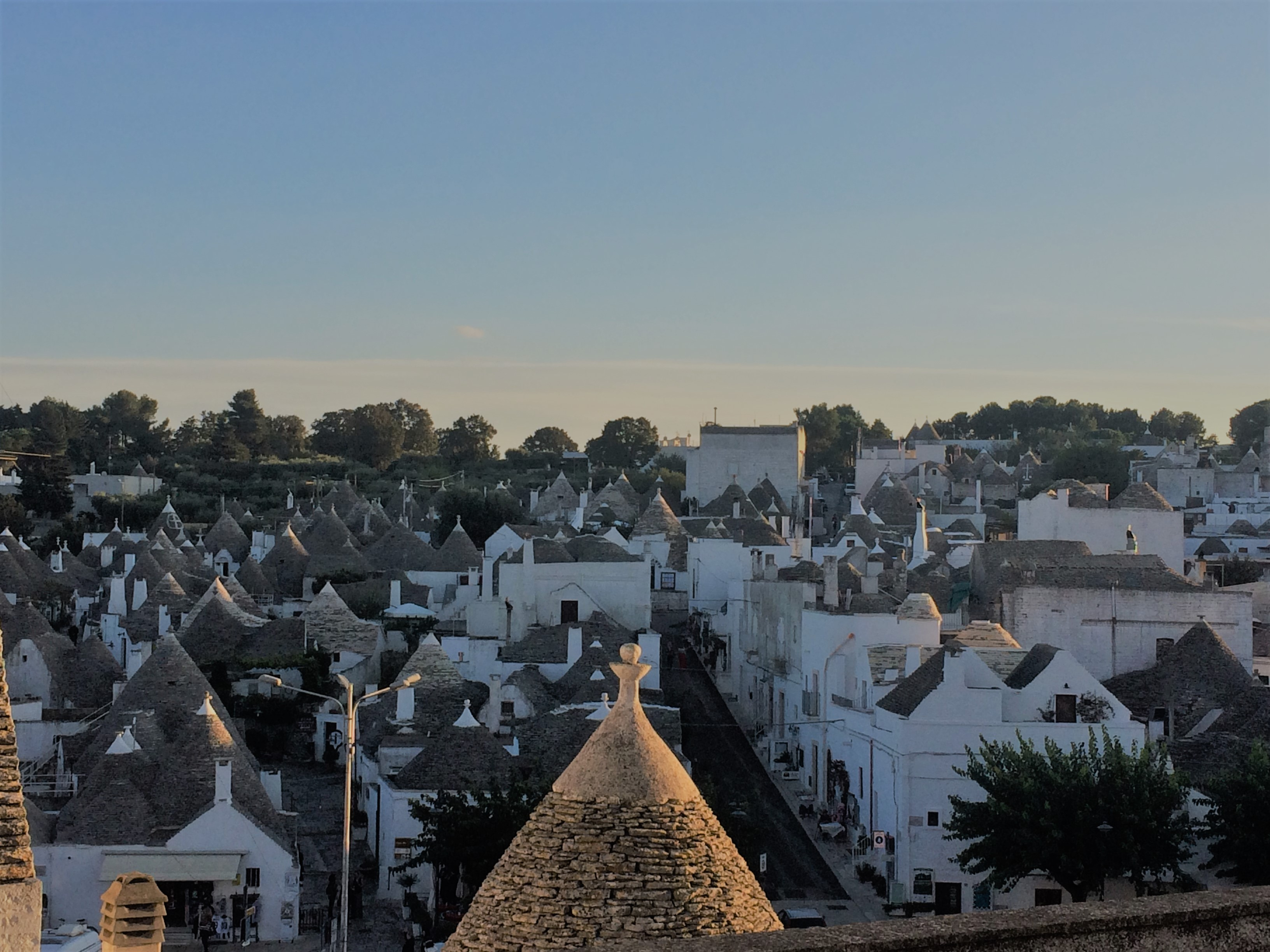 Schiera di trulli